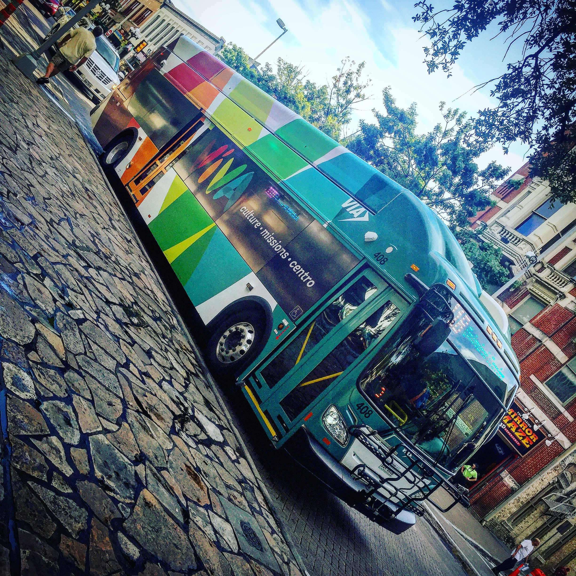 A Route 11B VIVA Culture bus travels along Alamo Street in Downtown San Antonio,TX